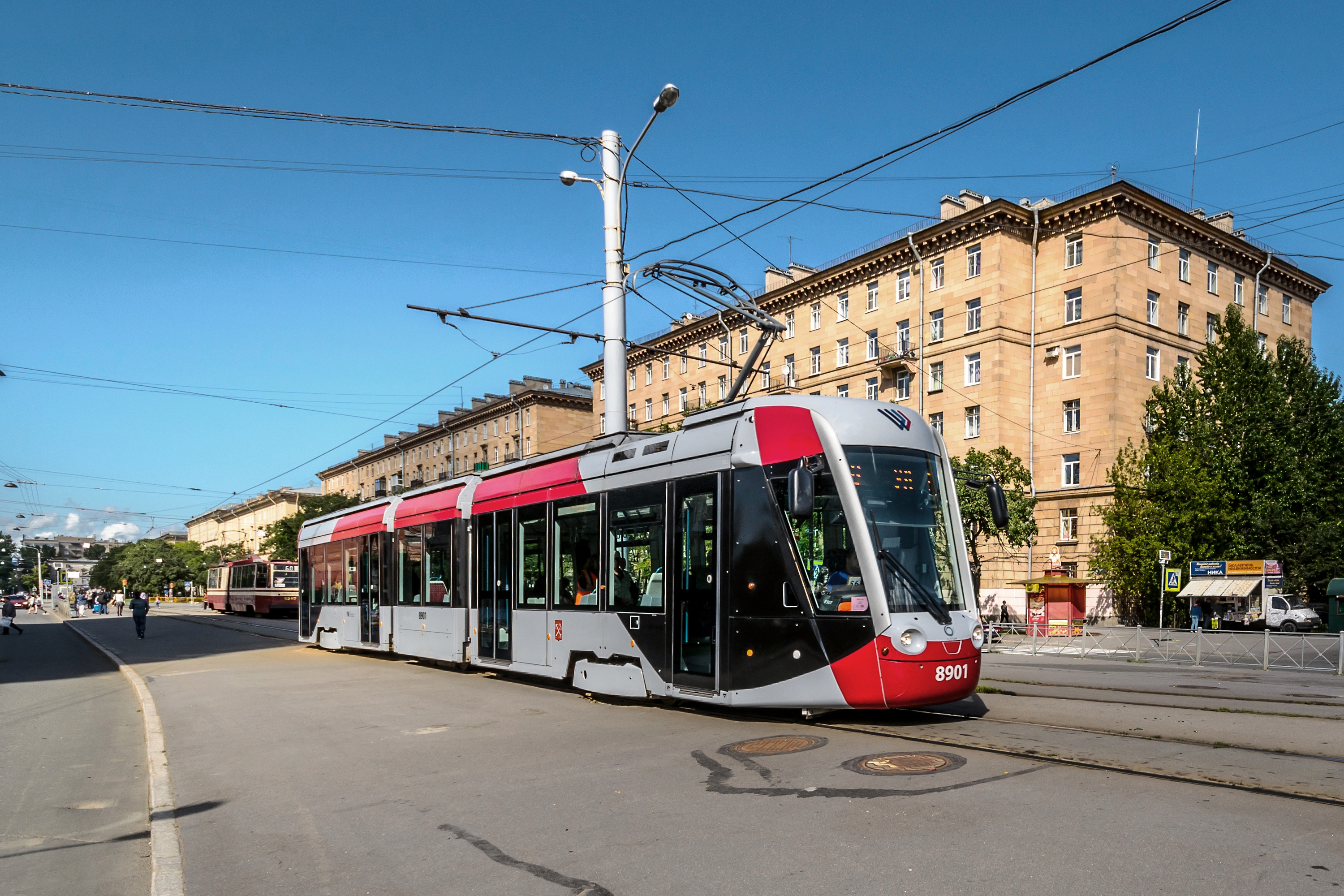 Tram Alstom Citadis 301 CIS in Saint Petersburg